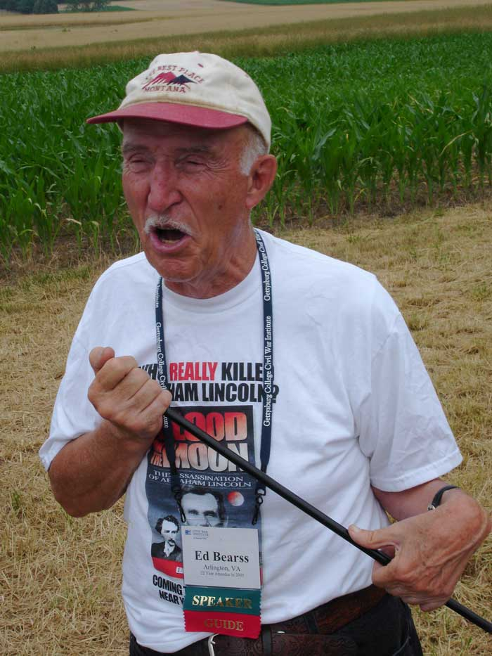 photo taken (by Hal Jespersen 19:56, 20 July 2005 (UTC)) of Bearss at Gettysburg